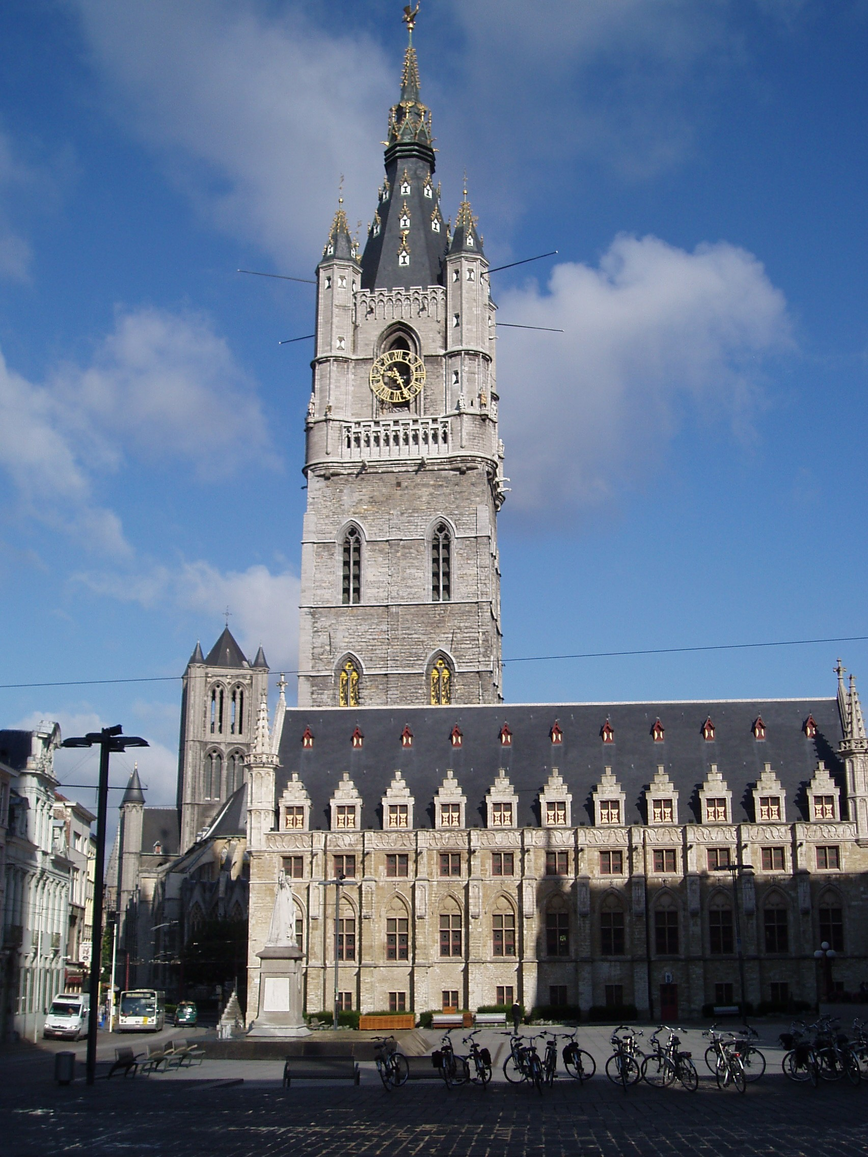 The Belfort in Gent.